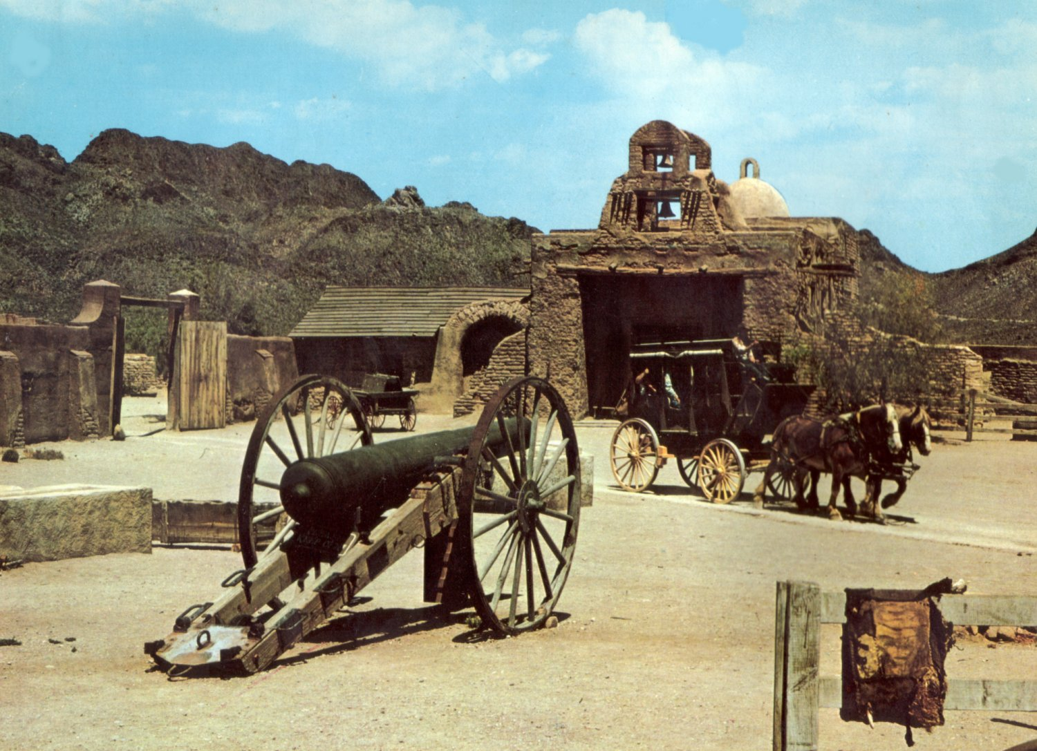 Old Tucson Studios 1979